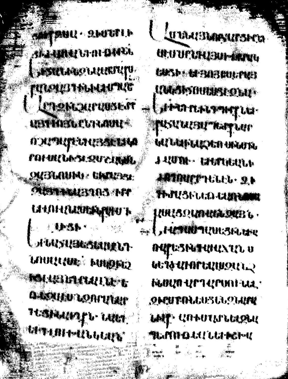 Armenian «Vehamor Gospel» of VII—IX centuries. Matenadaran, Ms. № 10680